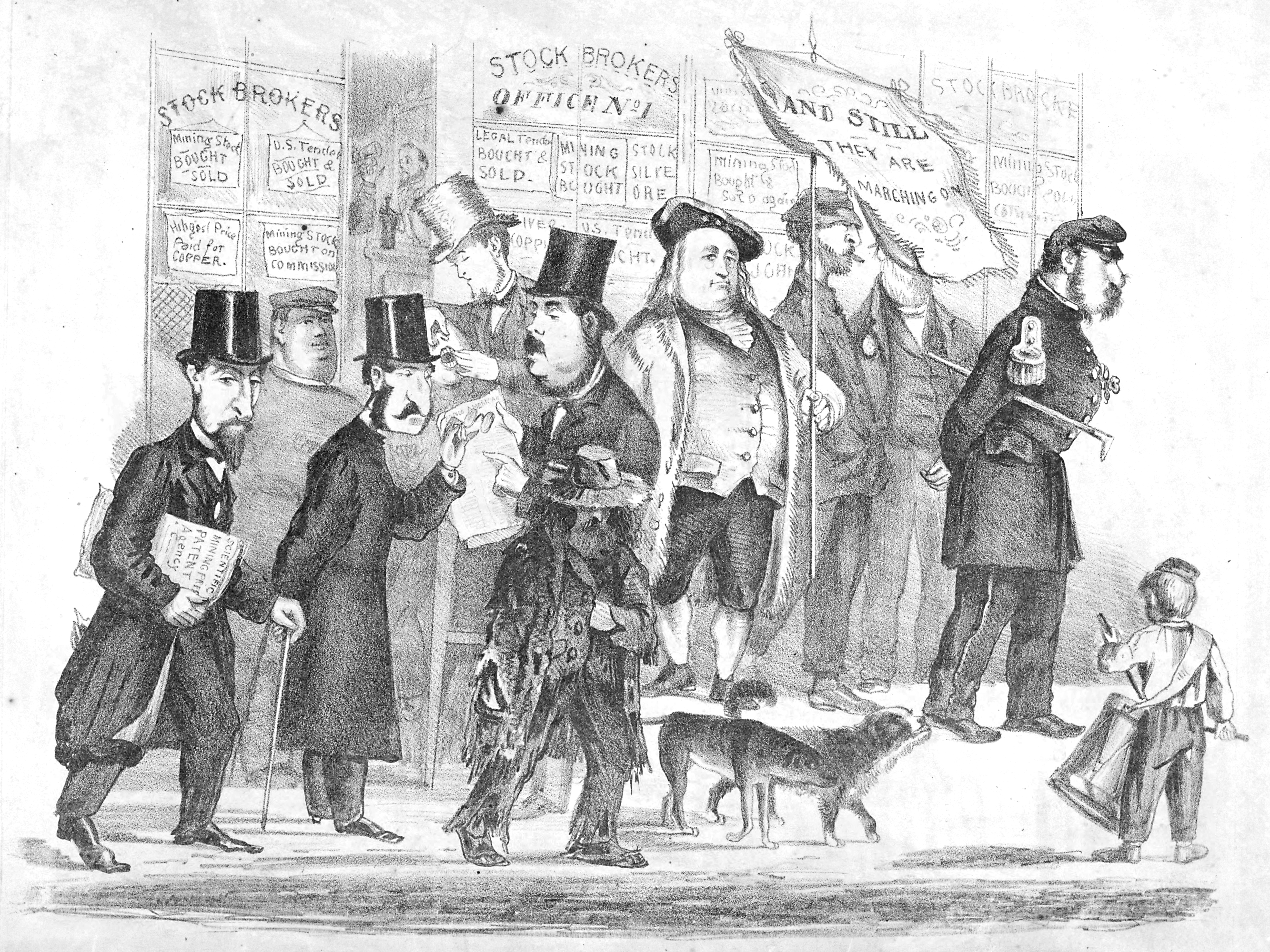 Ambling along Montgomery Street showing Bummer & Lazarus, Emperor Norton I. and Frederick Coombs aka George Washington II.